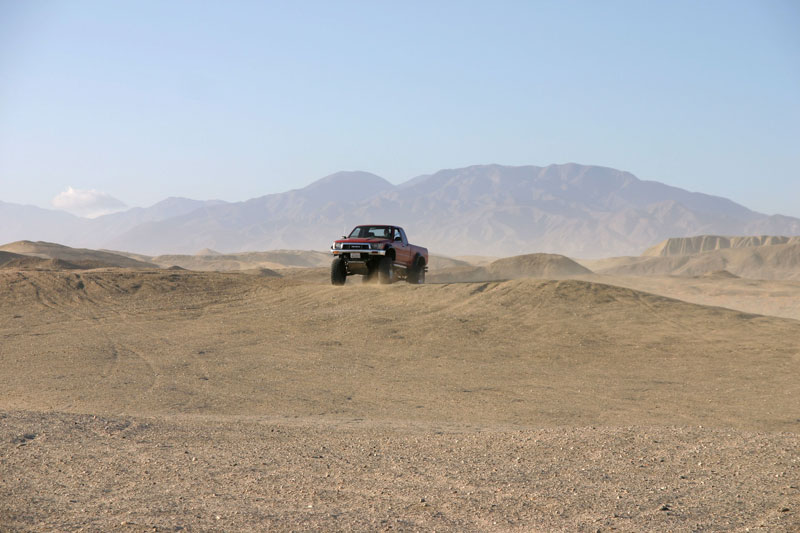 A Toyota off-roading in Ocotillo Wells, California